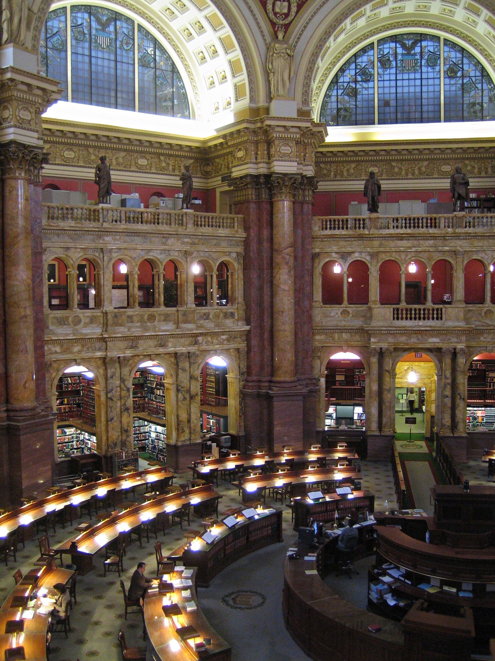 Main Reading Room, Library of Congress (Jefferson Building), Washington, D.C.